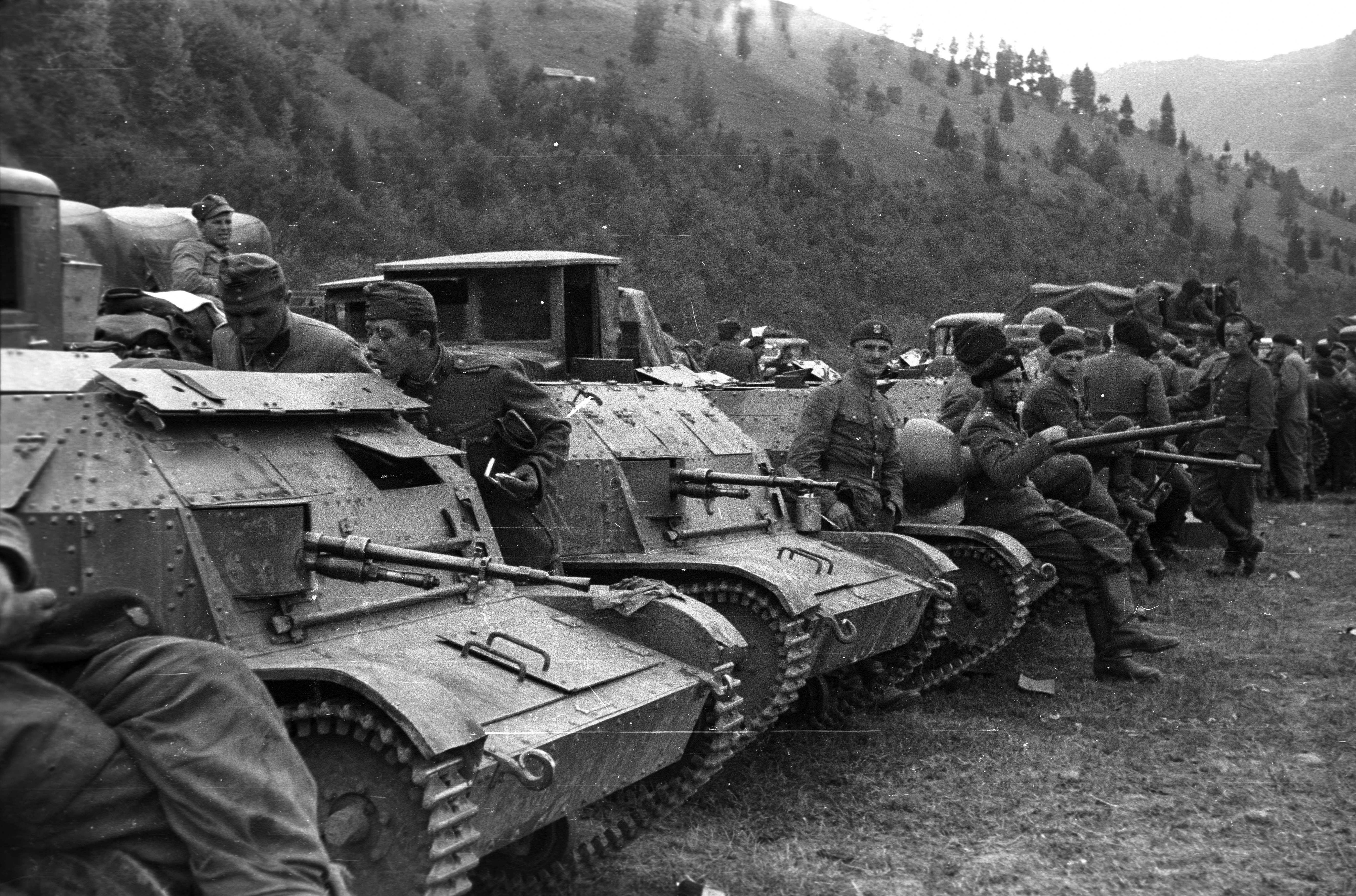 Tags: Polish soldier, machine gun, Polish brand, tank, combat vehicle